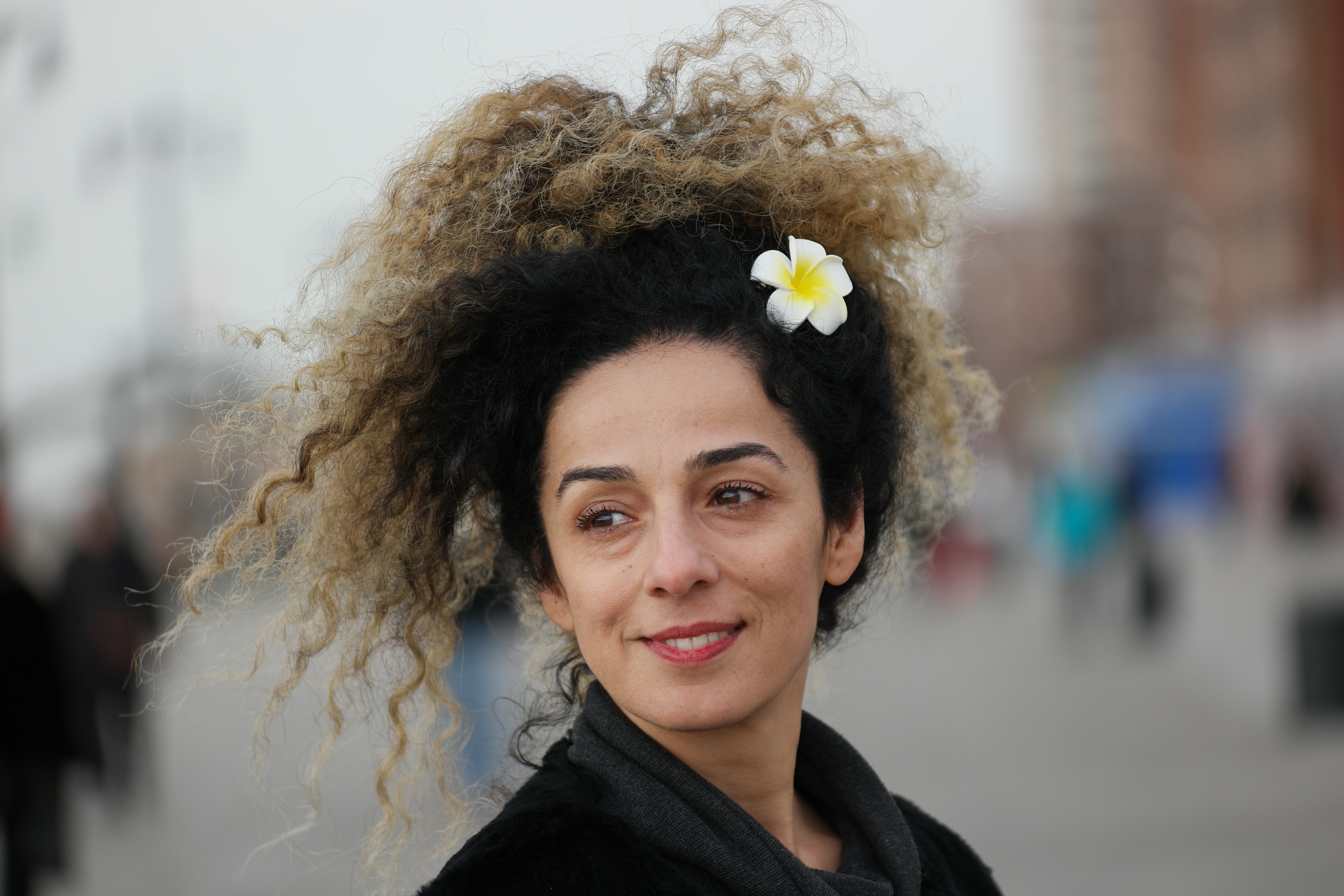 Picture of Masih Alinejad